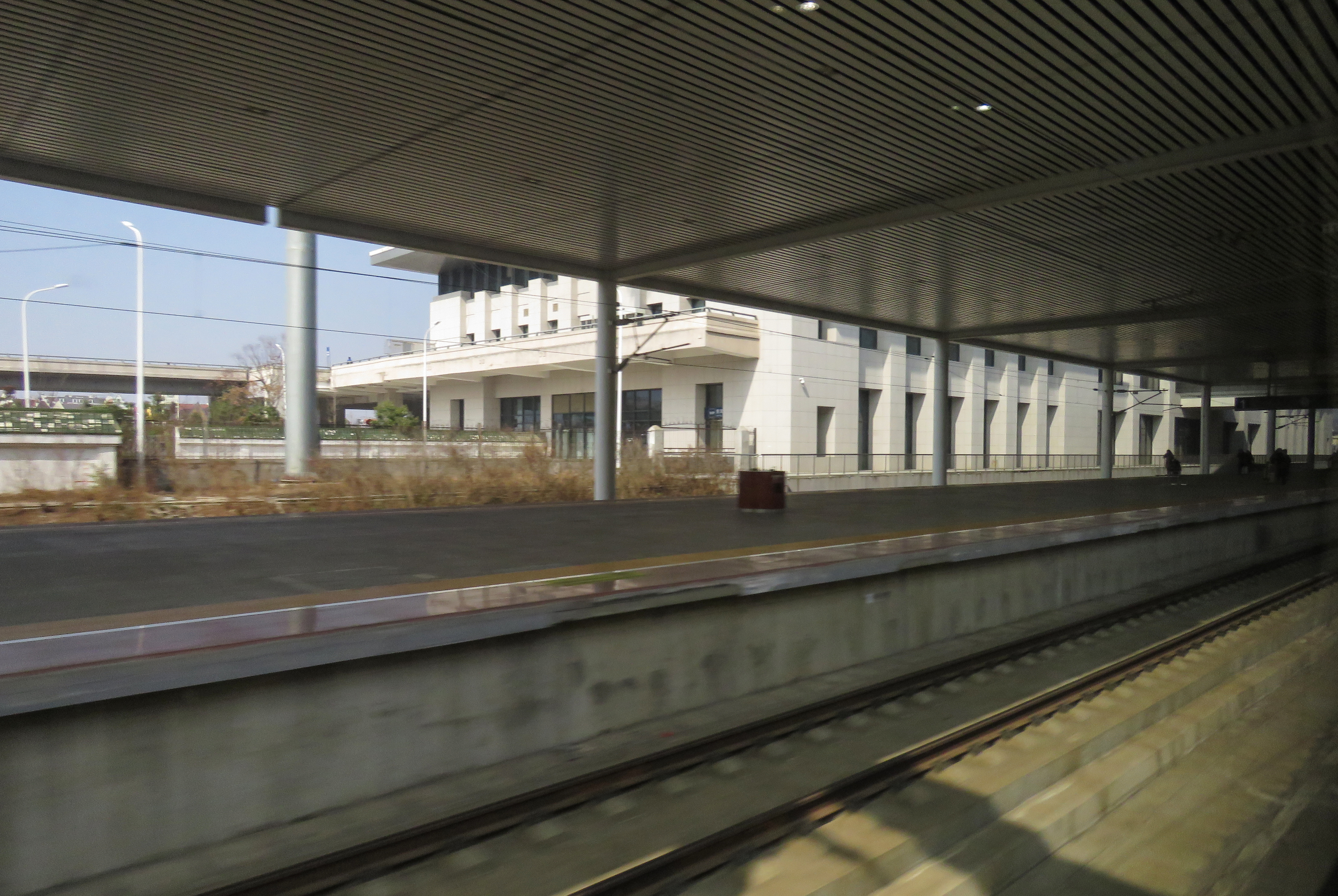 Another infamous "North Railway Station" - this one, ought to be called "Dawu Railway Station", is 80km to downtown Xiaogan!